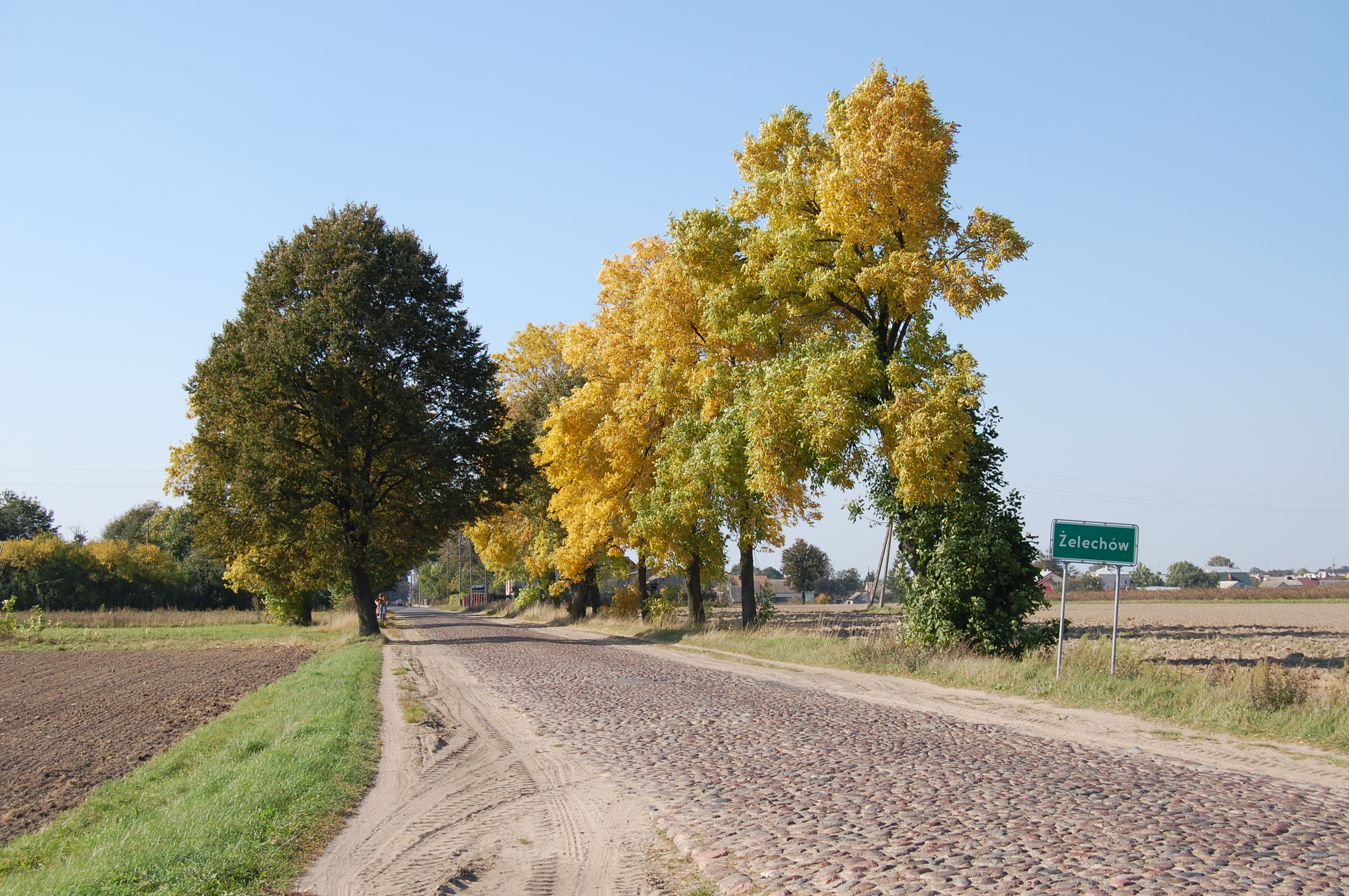 Minor road leading to Żelechów, Poland.